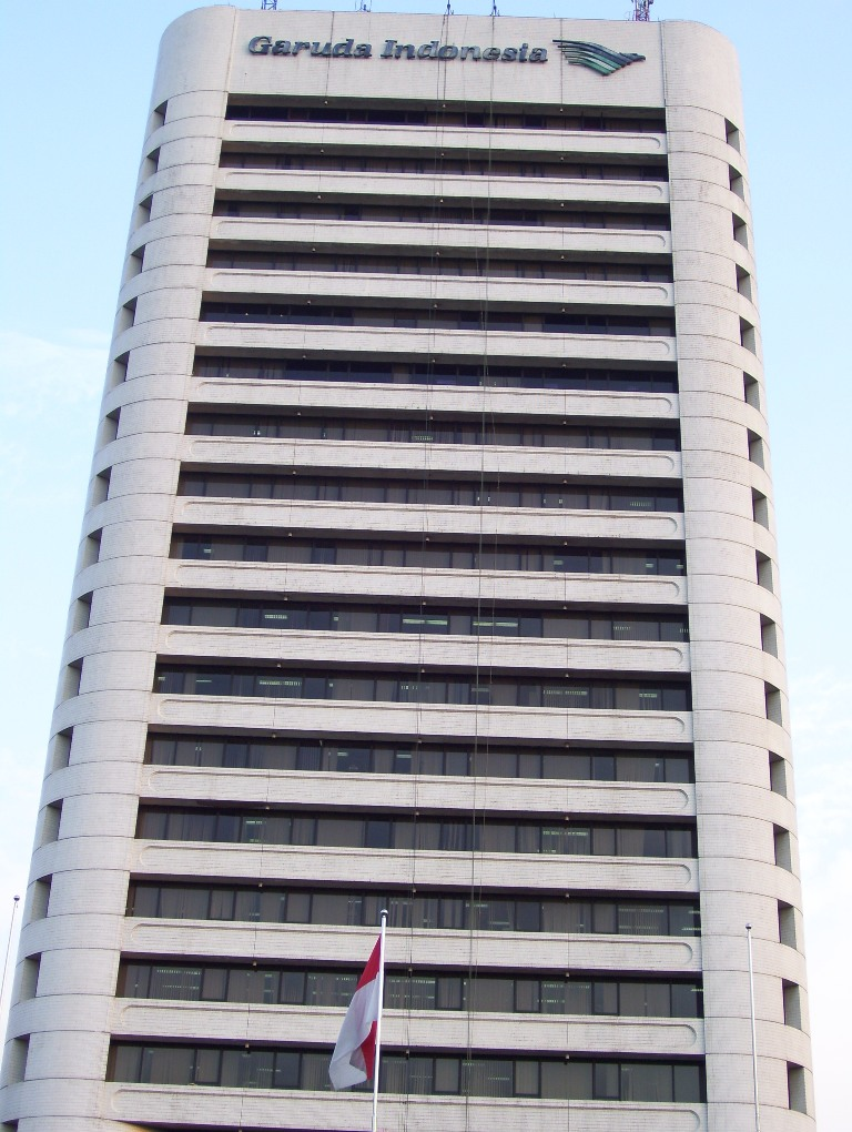 Garuda Indonesia Airways building in Medan Merdeka Selatan. (update 2013) this building in the year of the picture is taken (2007) is planned to be sold, and currently (2013) change owndership (link